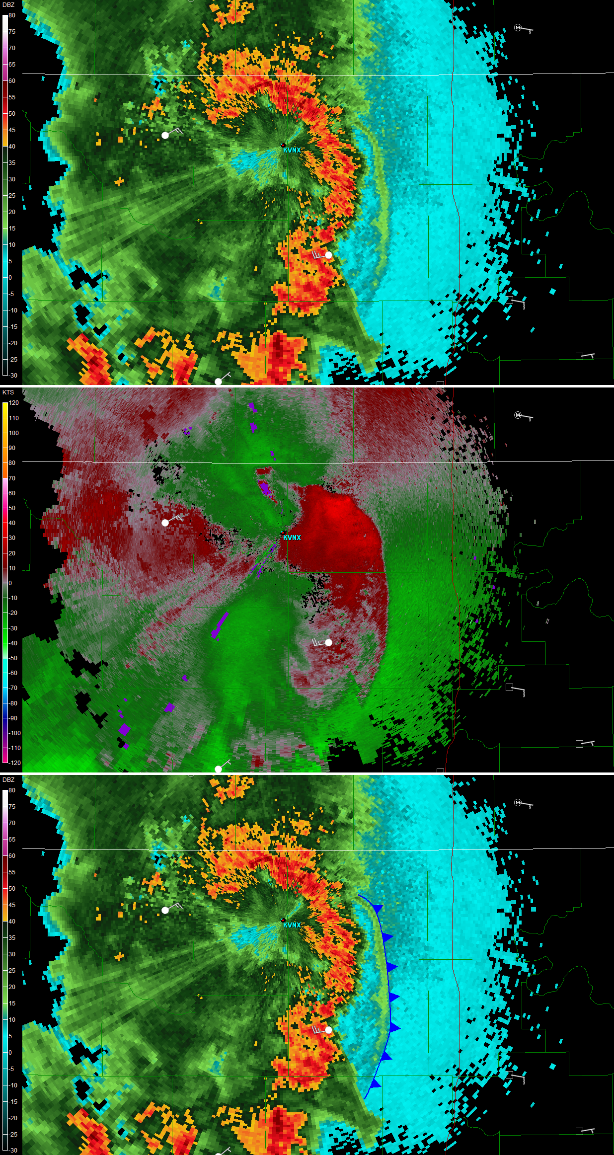 Coposite radar image of an outflow boundary coming from a Thumderstorm. Upper image shows strong reflectivities in the thunderstorms (Red) while a weaker line of echoes (Light green in the cyan area to the right) indicate the convection generated by the gust front. In the centre, the Doppler velocities relative the radar shows a zone of convergence (red away from radar and green towards it) on the outer edge of the weak line of echoes. At the bottom, the outflow boundary is indicated on the reflectivity image as a cold front line.